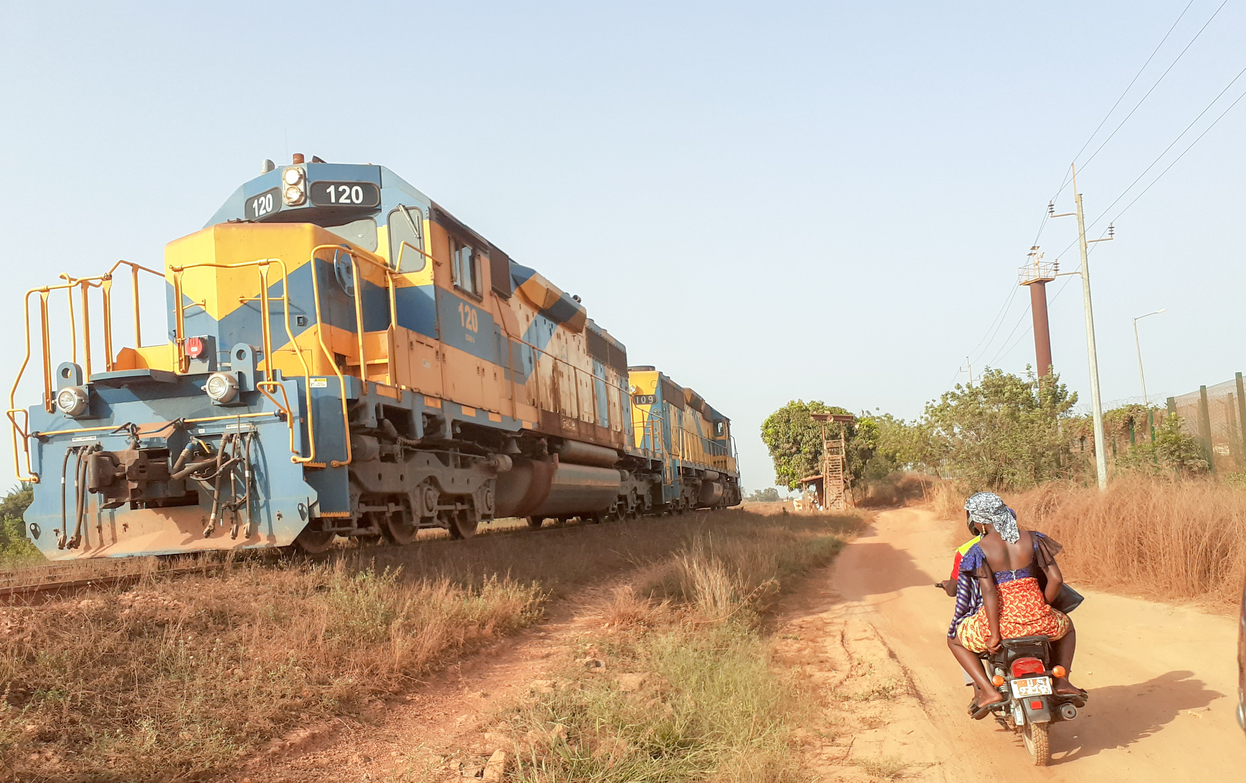 This is an image with the theme "Africa on the Move or Transport" from: Guinea